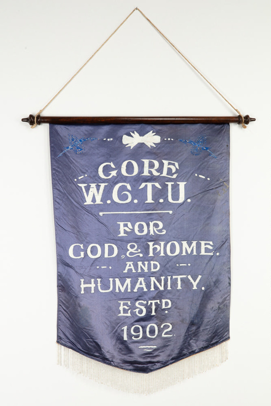 Hand painted banner, Gore Women's Christian Temperance Union, maker unknown. Photographed by Gore Historical Museum (GO.2018.1.1)